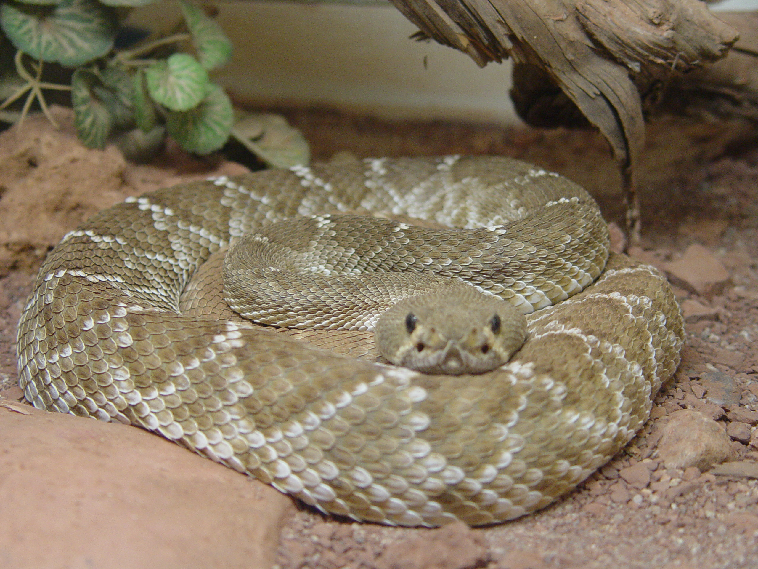 Red diamond rattlesnake (Crotalus ruber) at the American International Rattlesnake Museum